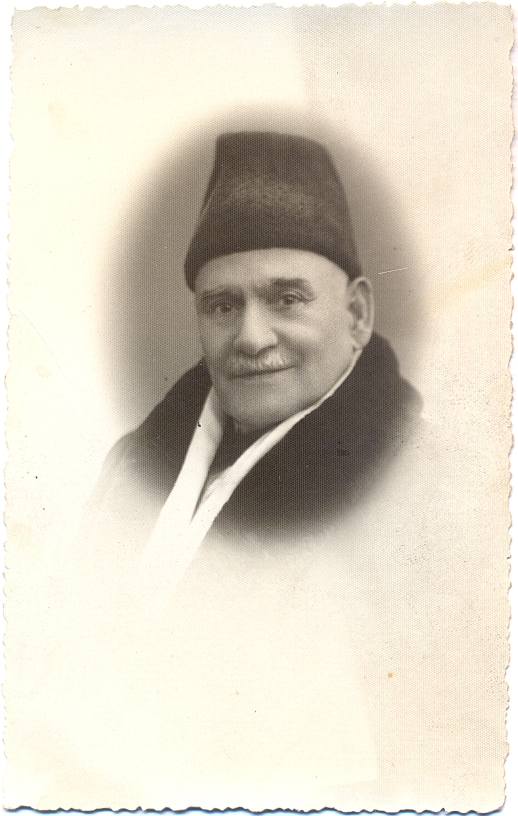 Portrait of the Bulgarian children writer Chicho Stoyan (1885-1939)